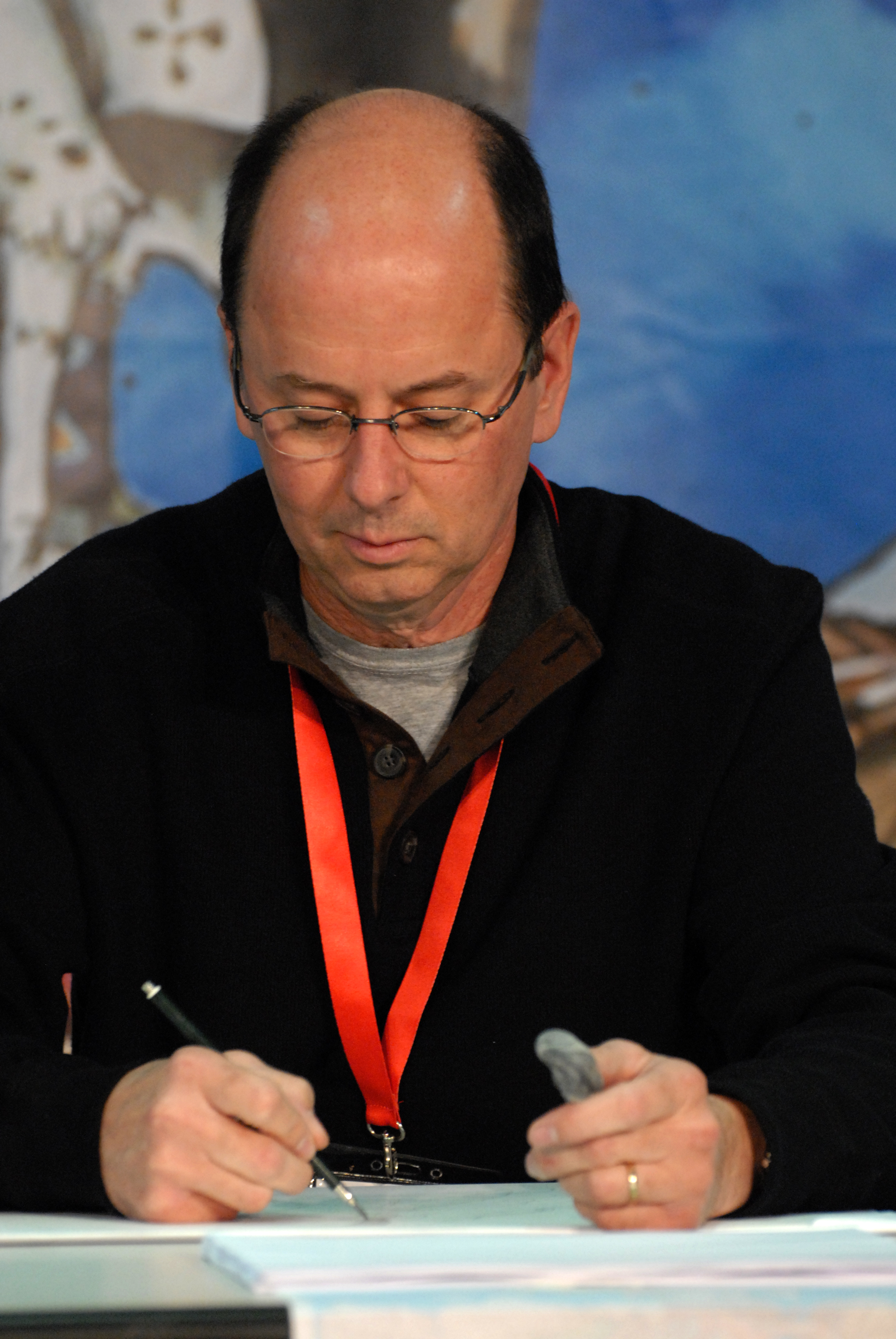 Terry Moore Photo taken during Lucca Comics&Games 2010